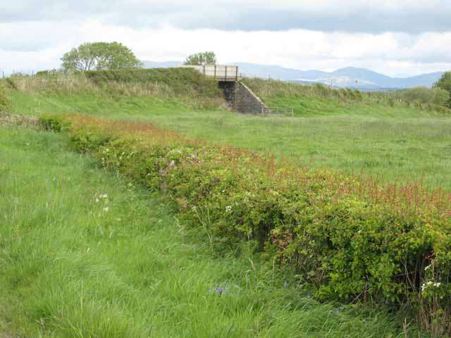 Bridge over the former Newton Stewart to Whithorn railway The railway functioned between 1875 and 1950 . The bridge is still standing carrying the Cree Moss road over the line.